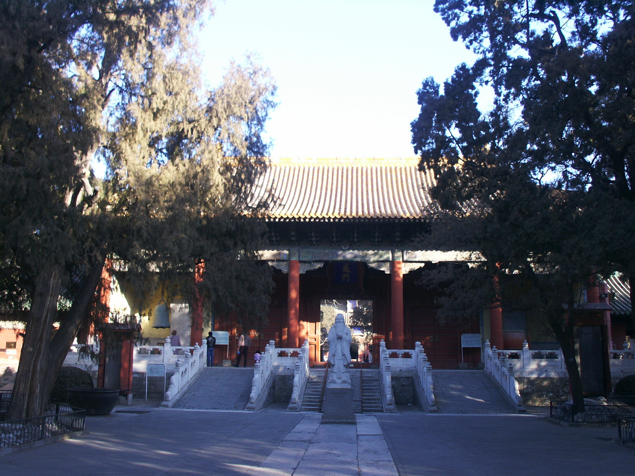 The Confucius Temple of Beijing